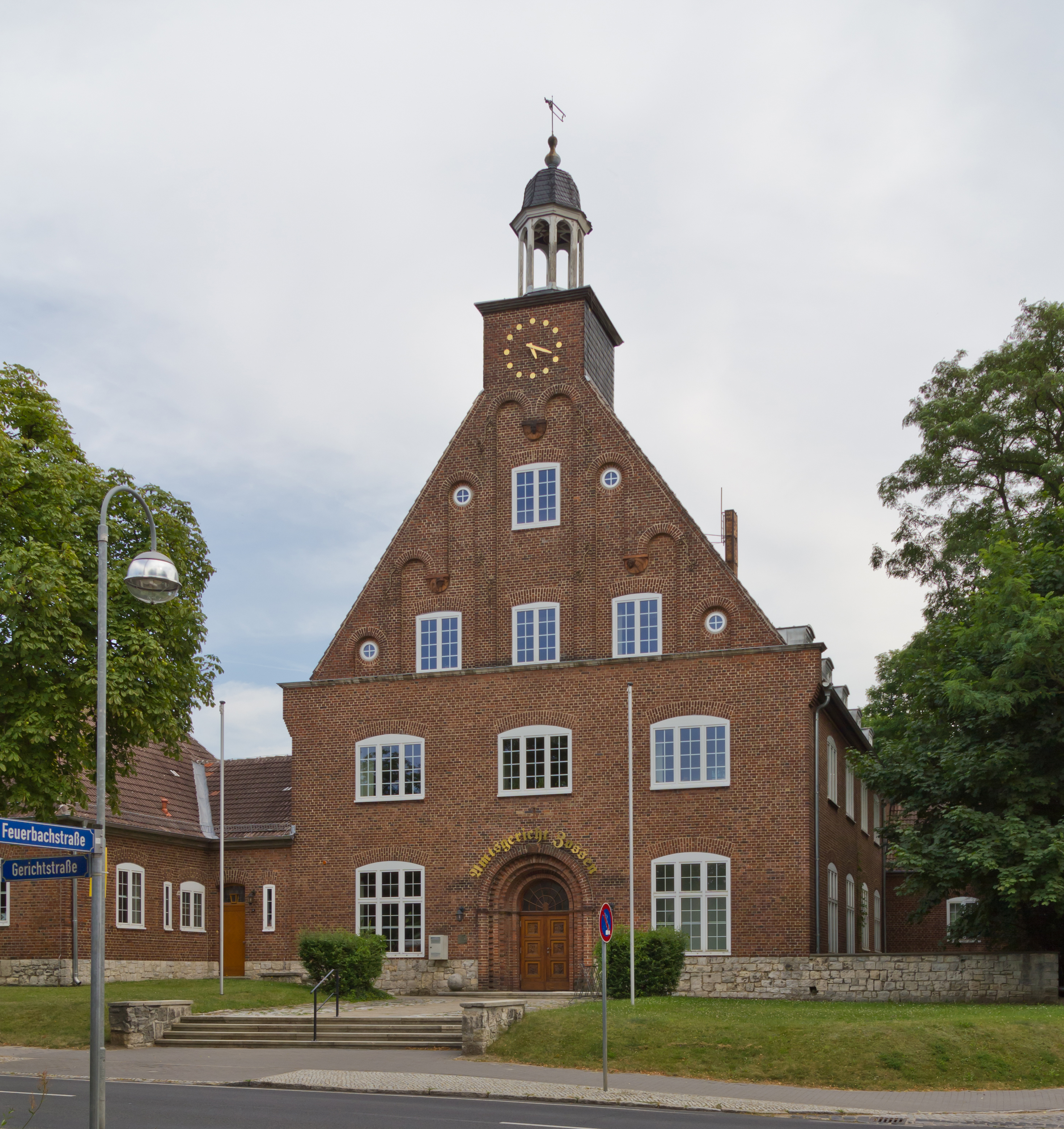 Courthouse in Zossen, Brandenburg, Germany